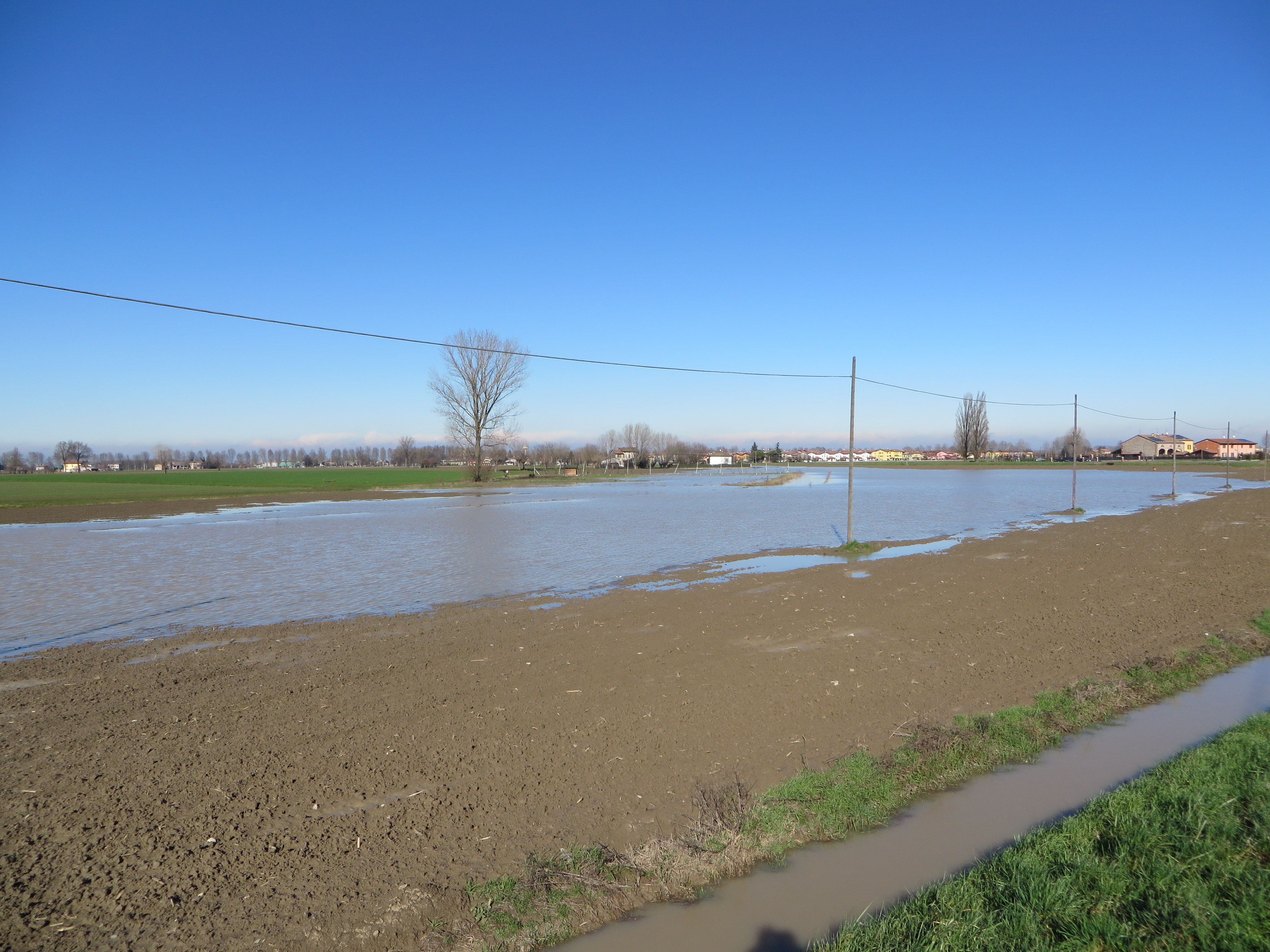 Ancient Taro river bed